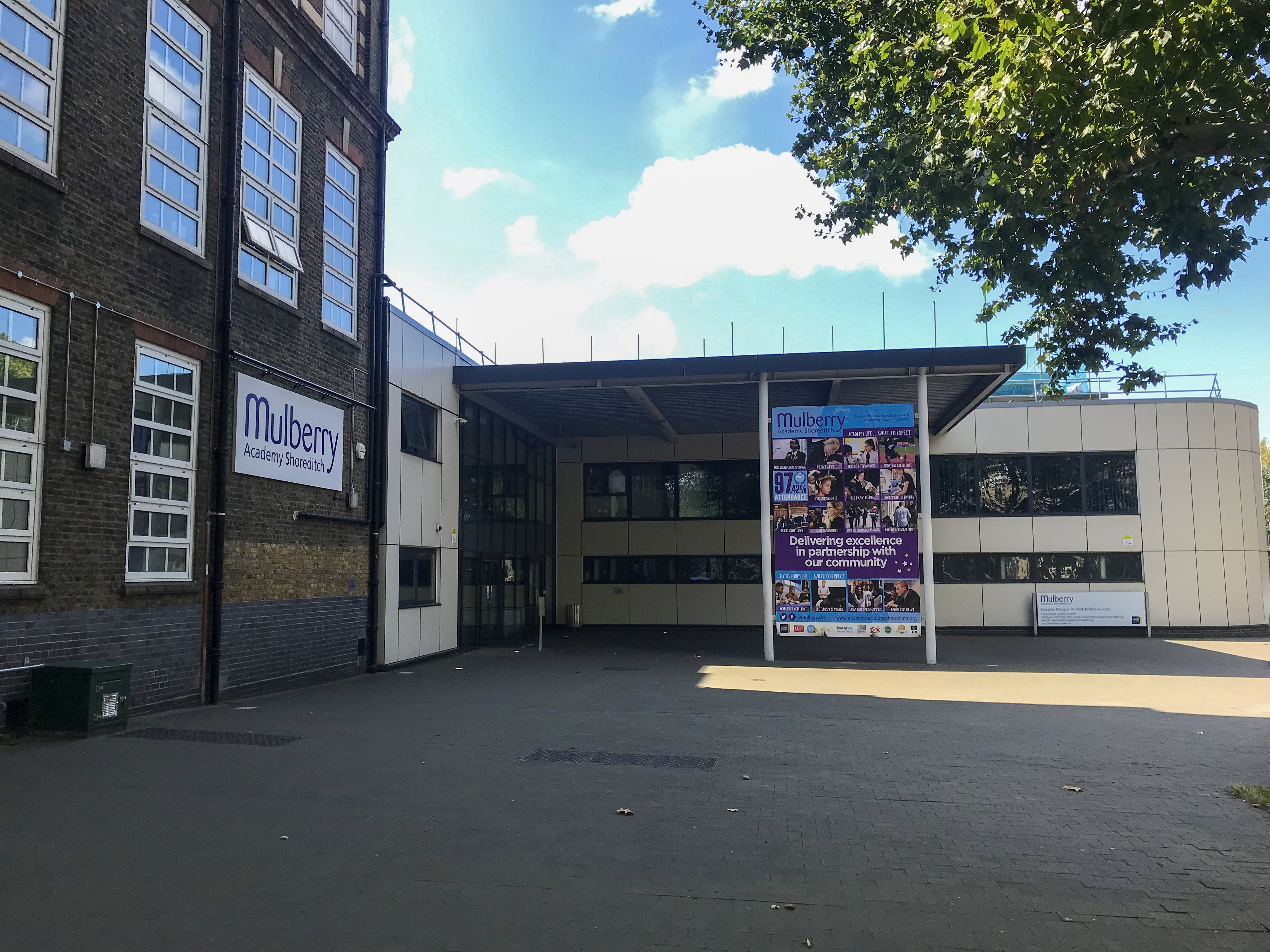 main entrance of Mulberry Adacemy Shoreditch, Gosset Street, London